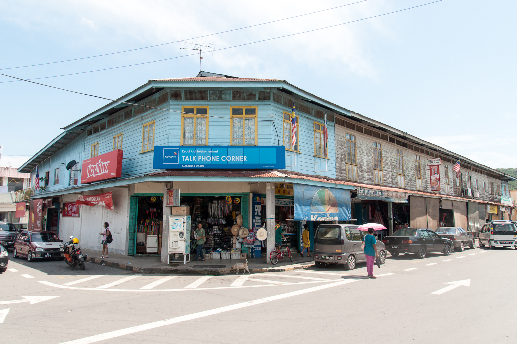 Old Shophouse in Tamparuli, Sabah